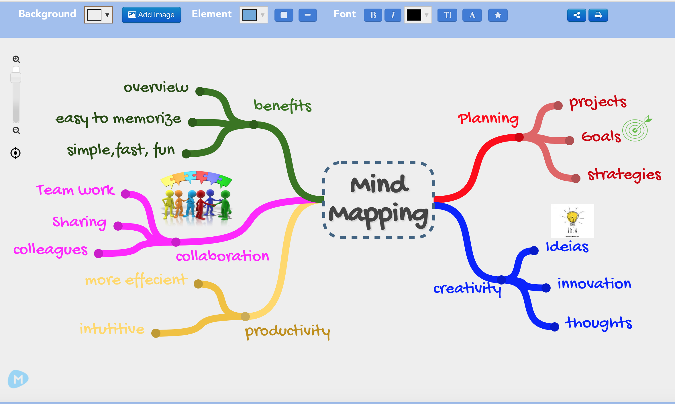 Memorize mind map